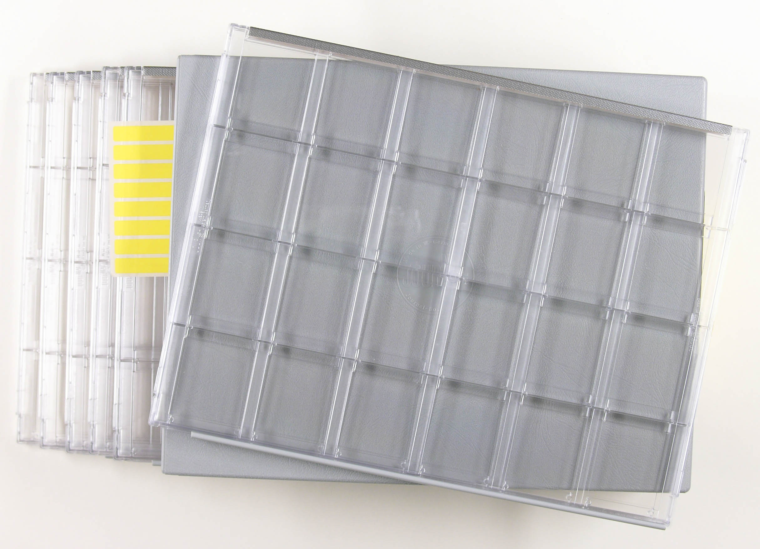 Journals used to archive 24 framed slides of 24x36 mm format